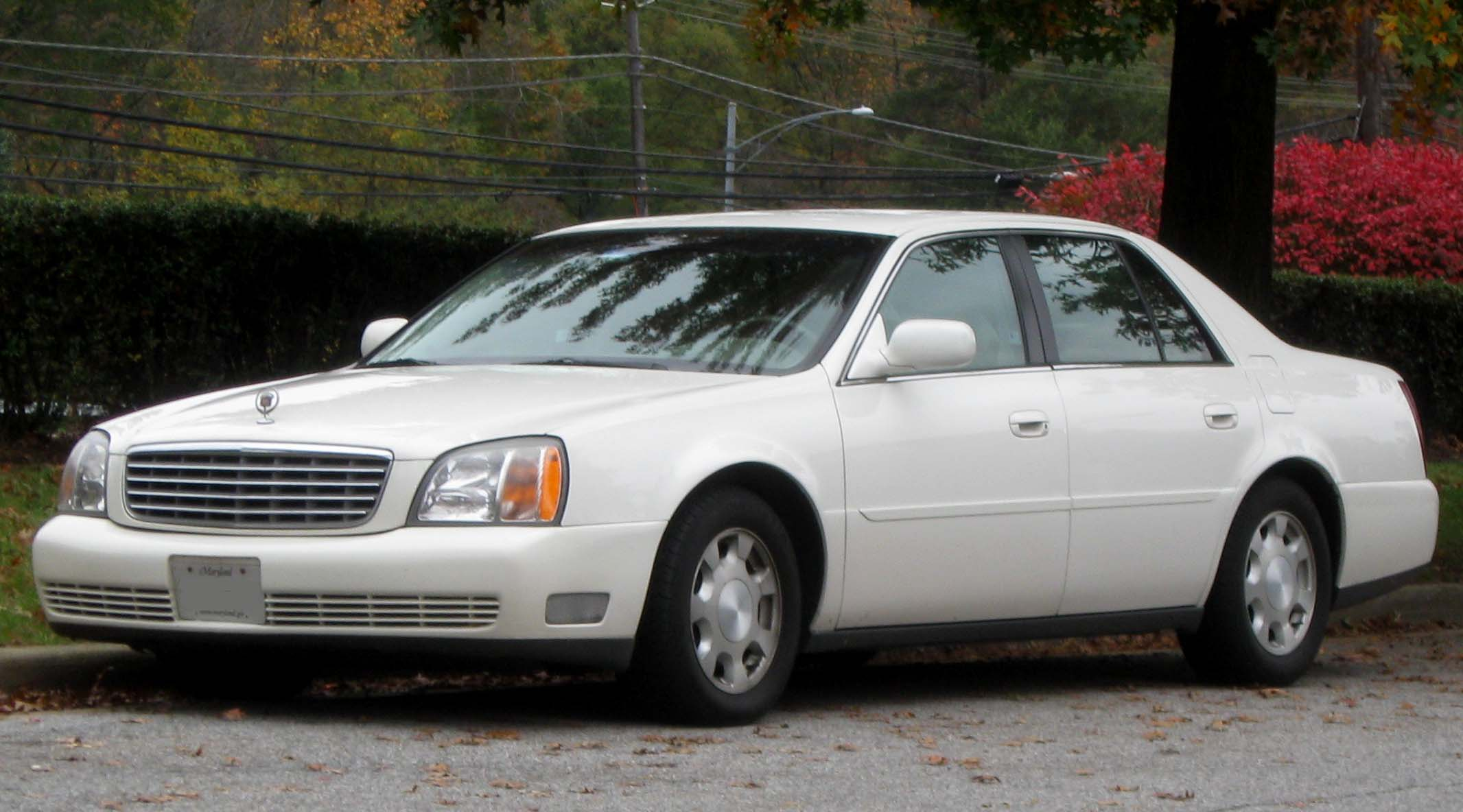 2000-2005 Cadillac Deville photographed in Greenbelt, Maryland, USA.